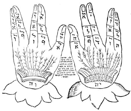 These hands, as in the Priestly Blessing, are divided into twenty-eight sections, each containing a Hebrew letter. Twenty-eight, in Hebrew numbers, spells the word Koach = strength. At the bottom of the hand, the two letters on each hand combine to form יהוה, the name of God.